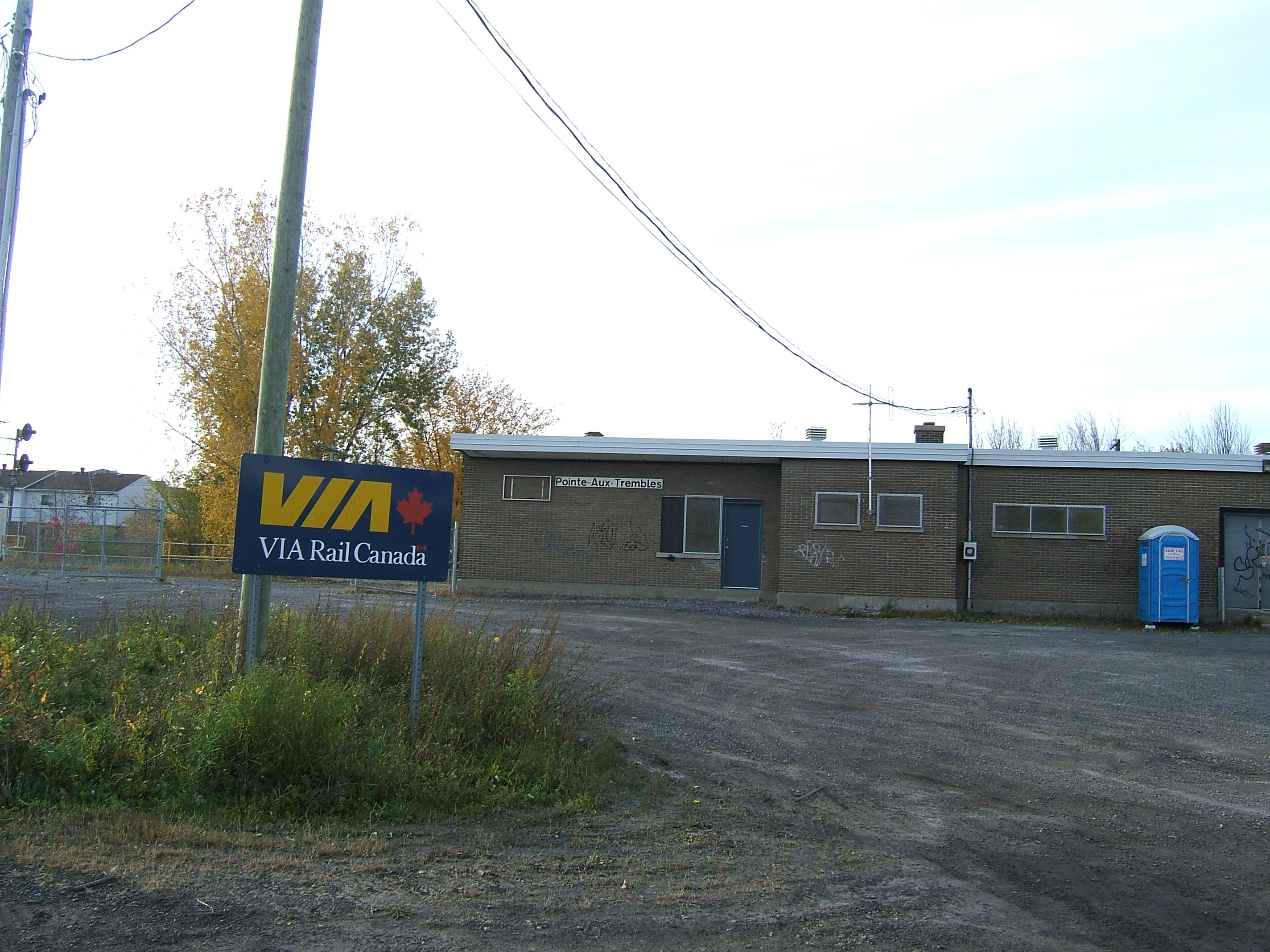 Pointe-aux-Trembles, Québec, railway station